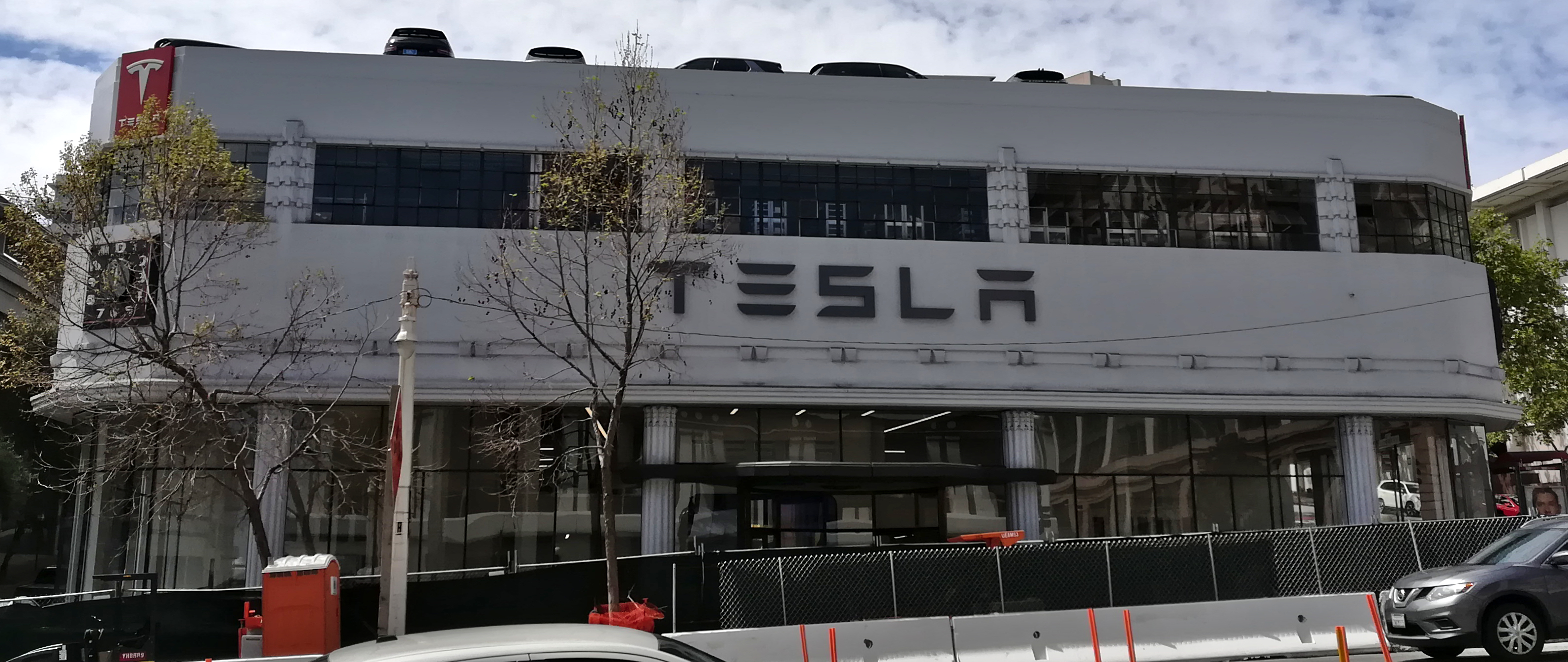 San Francisco Tesla Store in April 2018